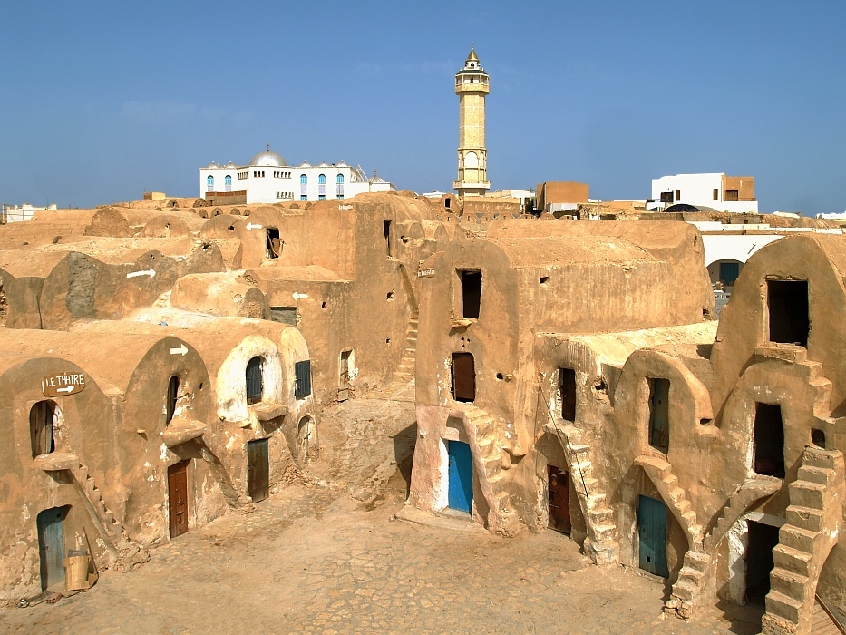 Ksar of Medenine